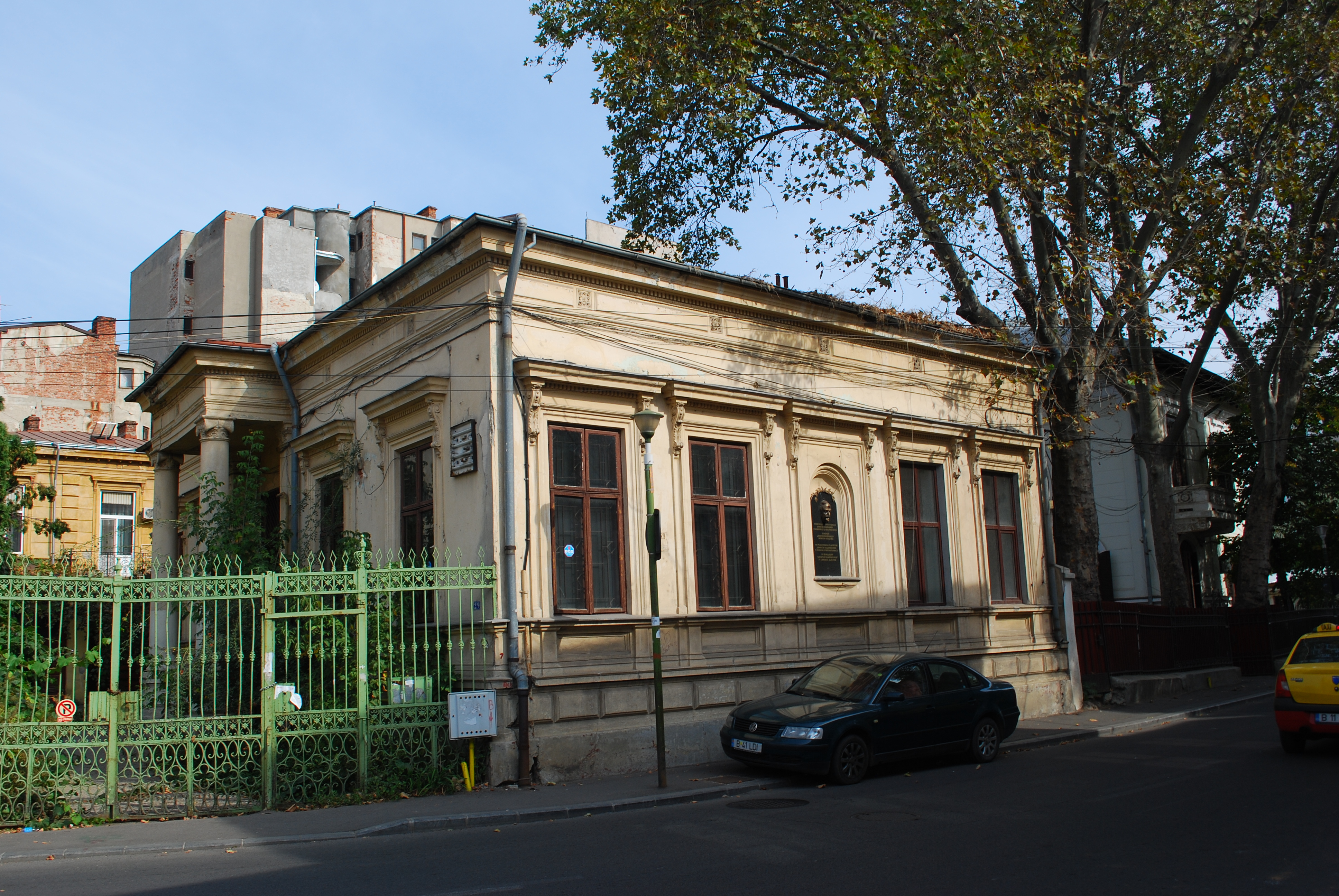 Historic building in Bucharest, Romania on Hristo Botev street 29